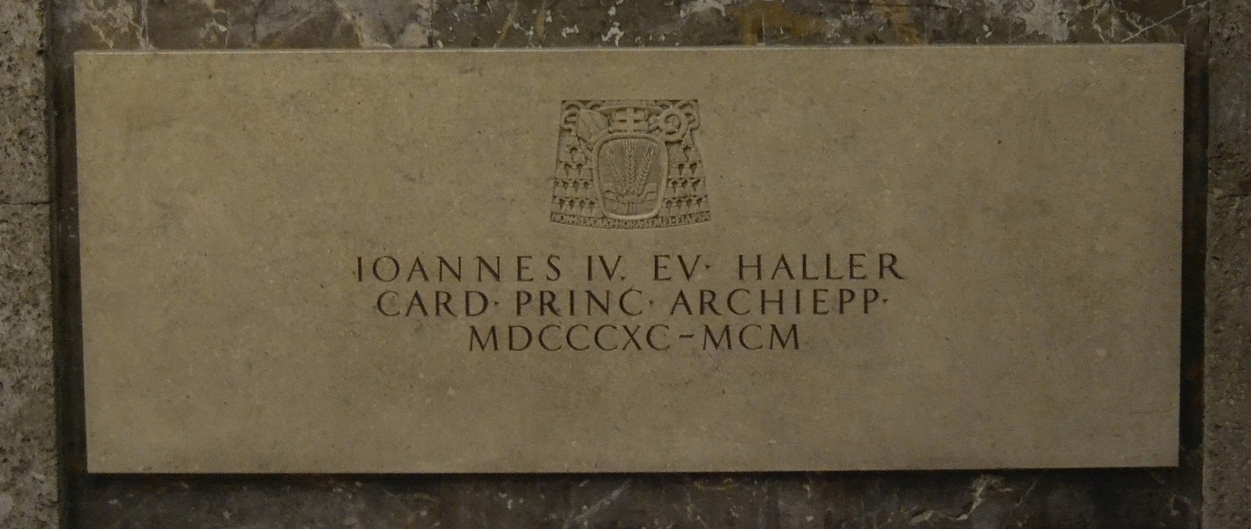 Salzburg Cathedral crypt, room 5: tomb of Archbishop Johannes Evangelist Haller